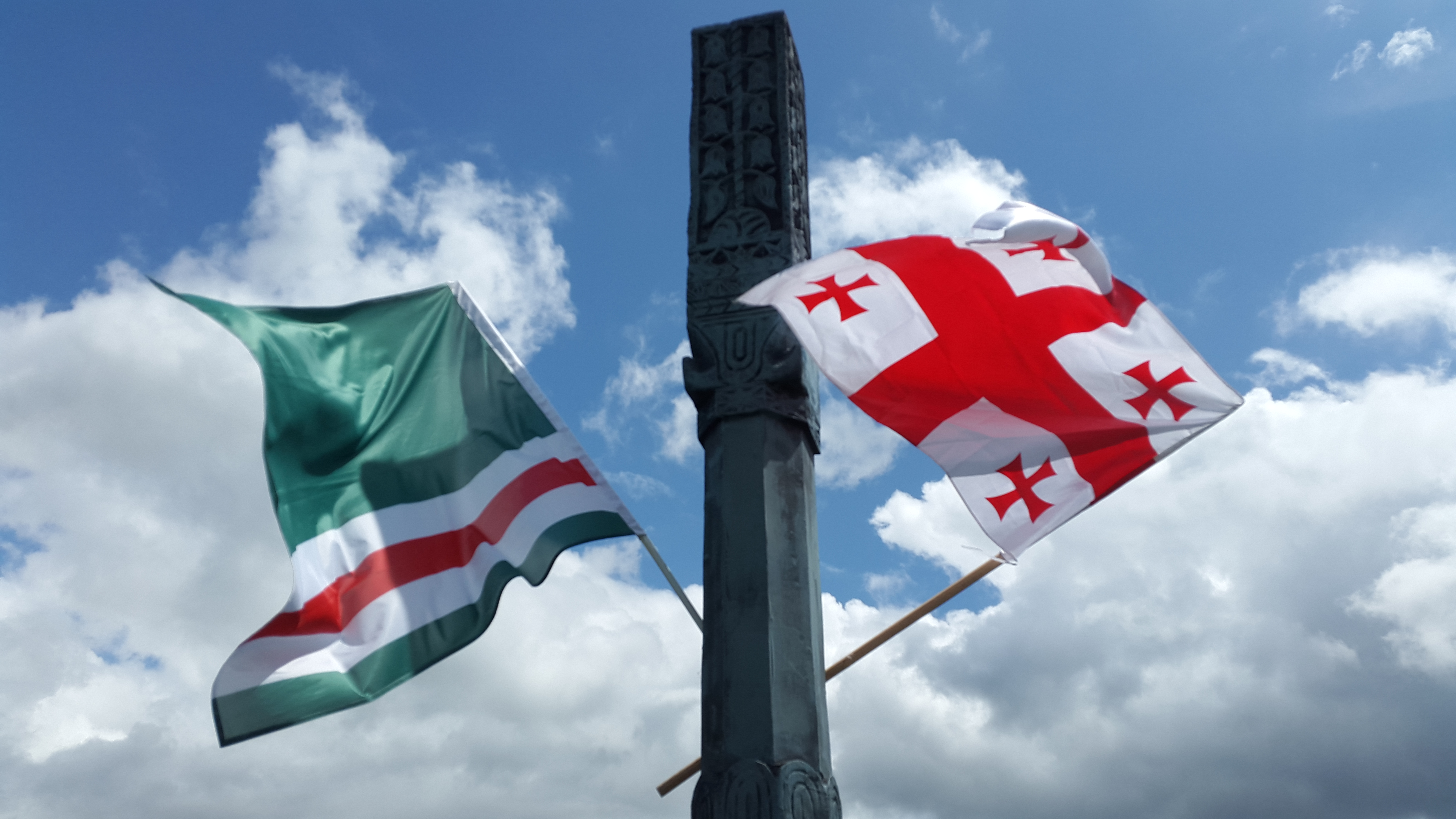 Pankisi Gorge, Flag of Ichkeria and Georgia